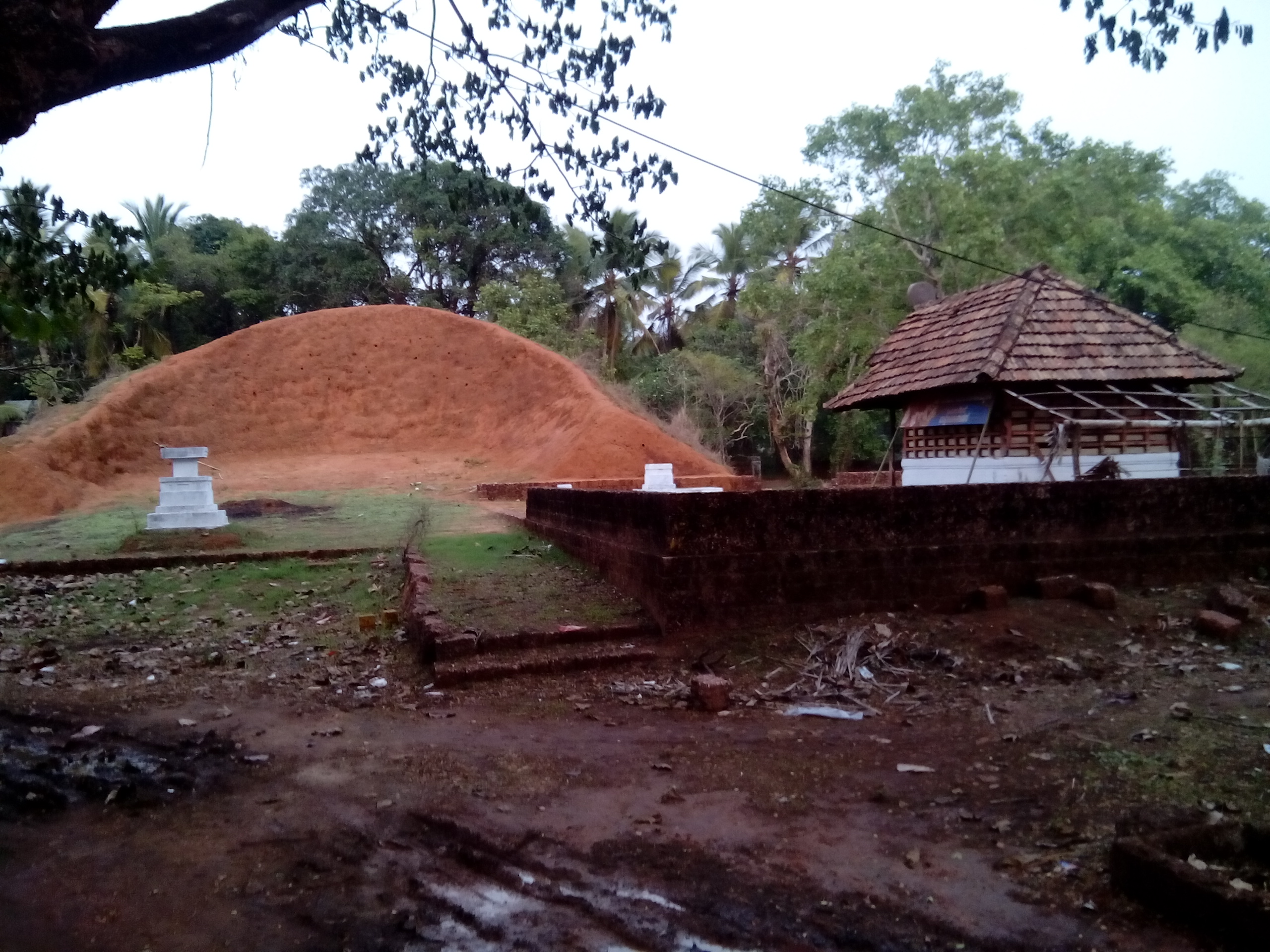 Theyyam ritual performing Kovil / Temple in nearChervathur, Kasaragod District, Kerala